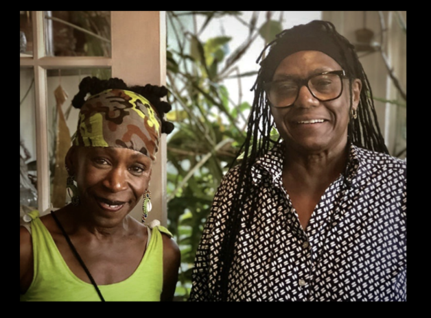 Artists Sana Musasama (left) and Janet Olivia Henry (right) for BOMB's 2019 installment of Oral History Project